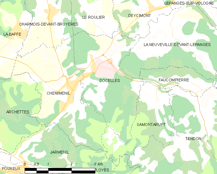 Map of French municipality Docelles